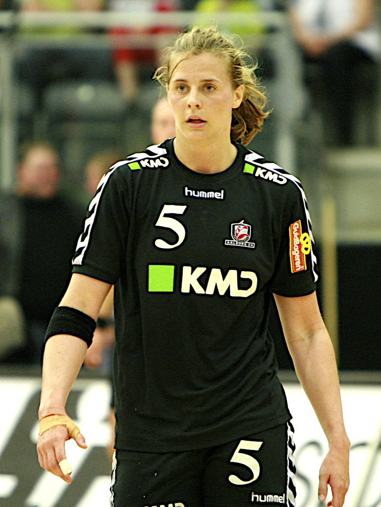 Linnea Torstenson from Aalborg DH.